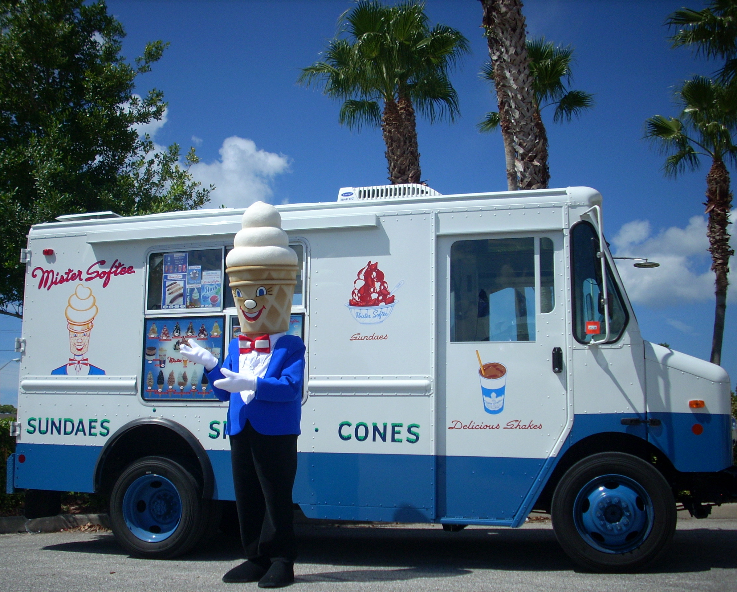 Mister Softee Southwest Florida